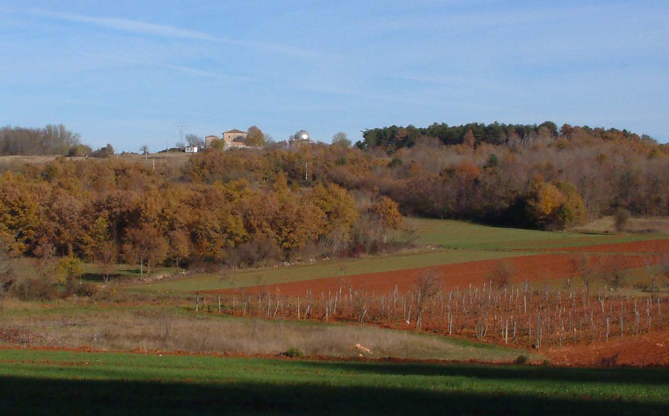 Tičan hill, village, Tičan observatory (Višnjan Observatory) and terra rossa fields, Višnjan, Istria, Croatia. K. Korlević